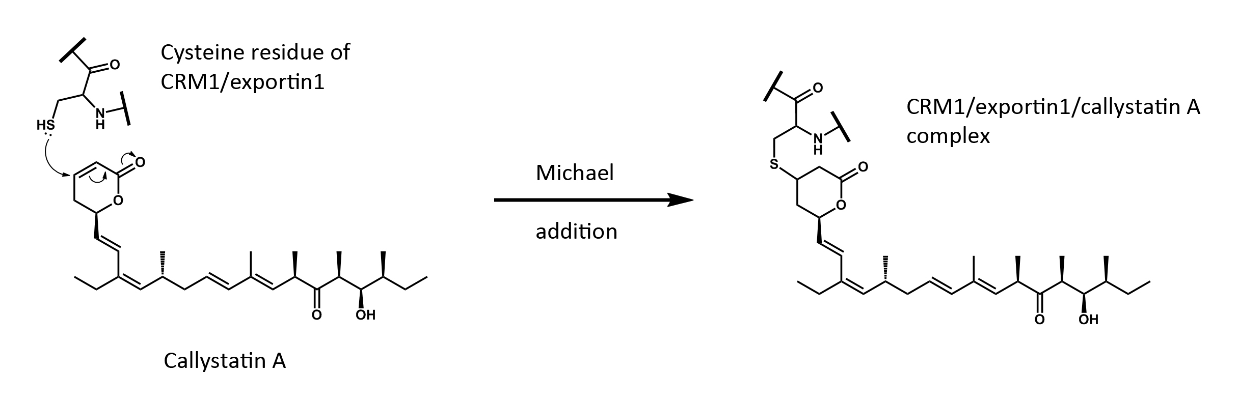 Mechanism of inhibition CRM1/exportin1 by Callystatin A